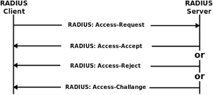 Радиус пакетын төрлүүд